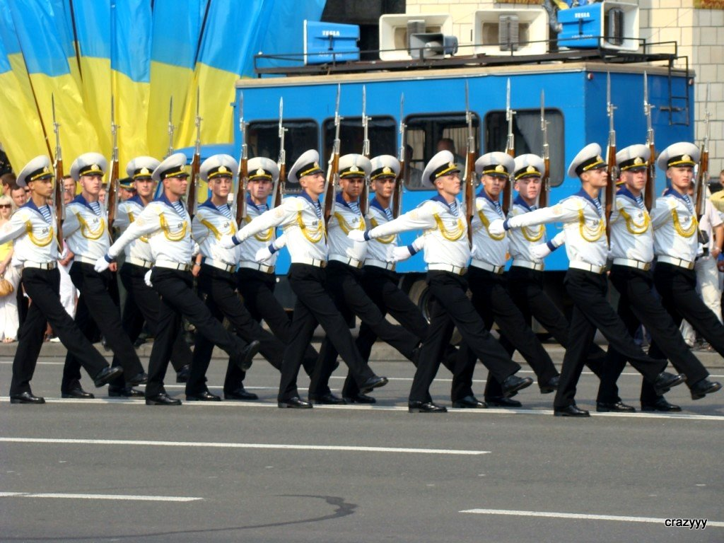 Ukrainian sailors during the Independence Day parade in Kiev, Ukraine in 2008.